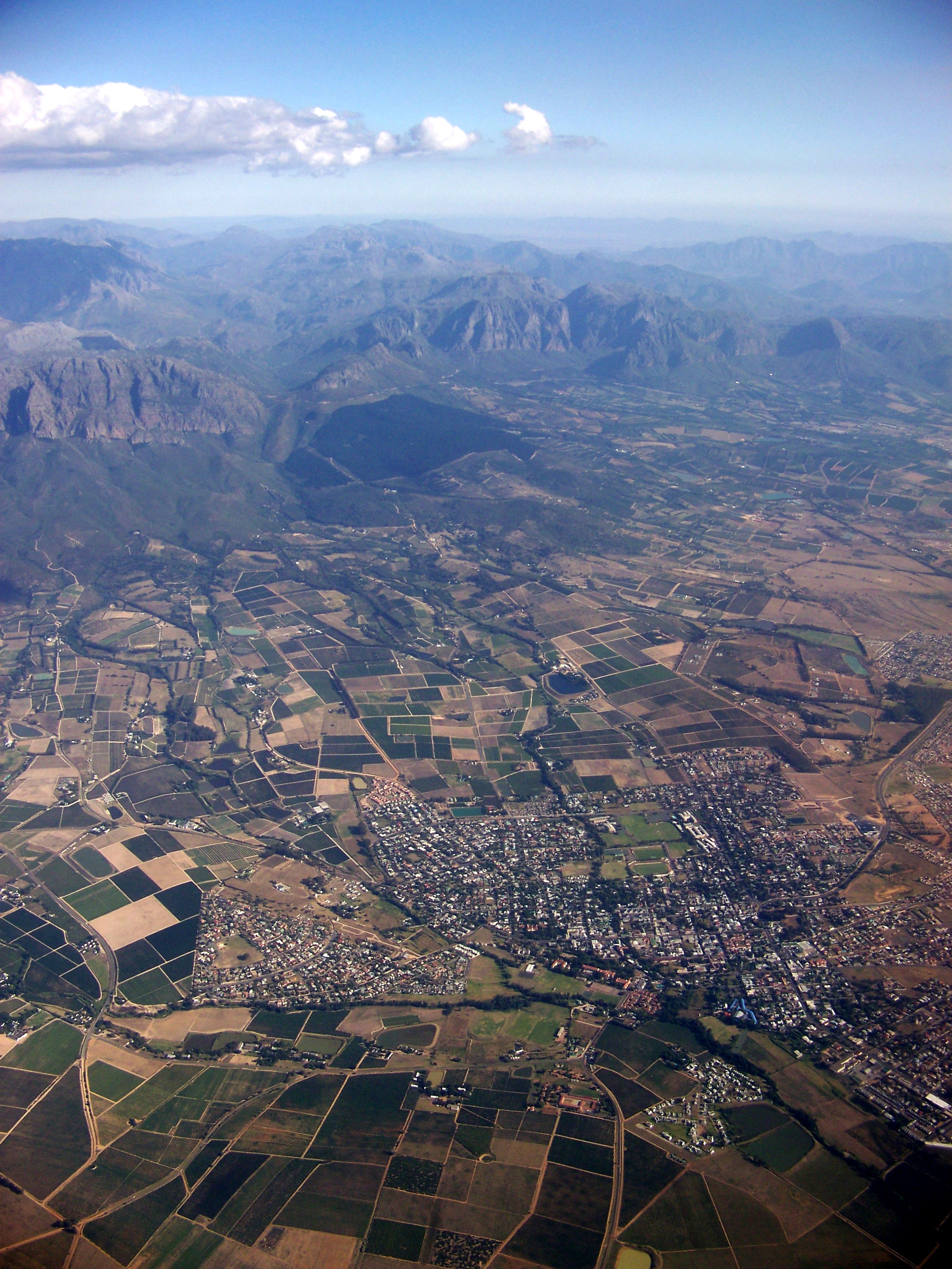 Wellington viewed from the plane, Hawequas Mountains in background